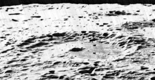 Oblique view of Leeuwenhoek, on the far side of the moon, facing west.